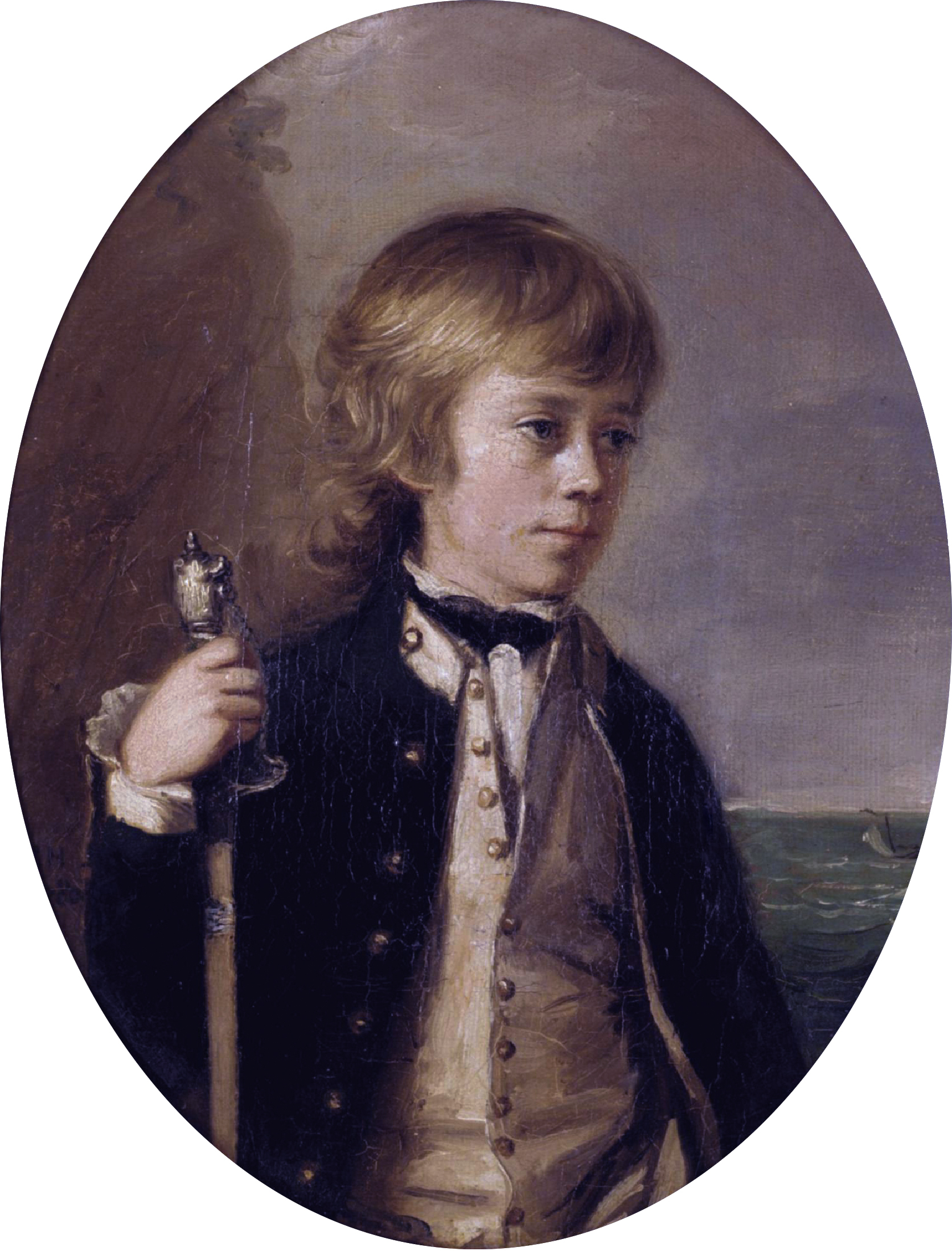 Henry William Baynton, aged 13 years, 6 months, midship man in the Cleopatra oil on canvas 26 x 21 cm signed with initials and dated 1780